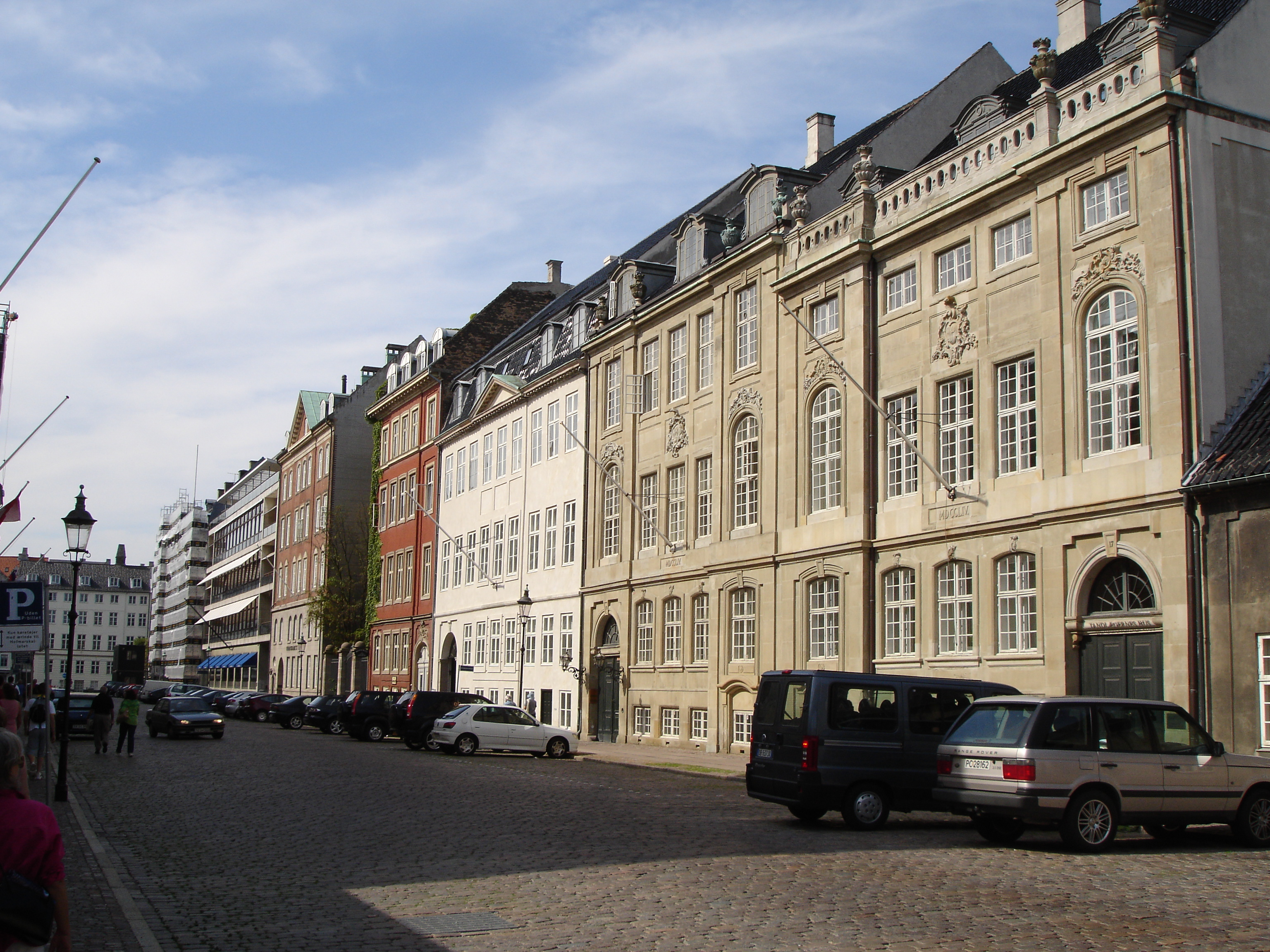 Amaliegade at No. 17 in the Frederiksstaden district of Copenhagen, Denmark. No. 17 was designed by Nicolai Eigtved and now houses the Dentists' Association.